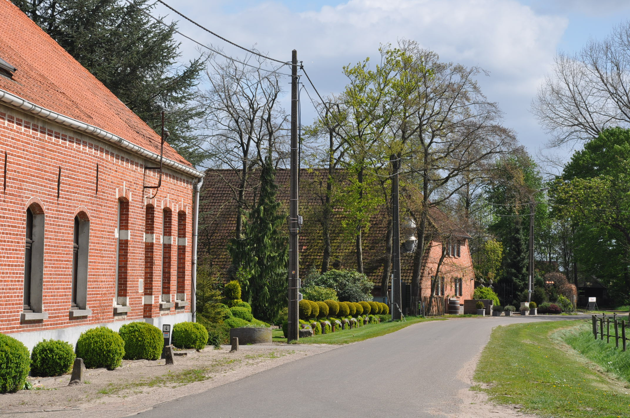 Farms in Castelré (municipality Baarle-Nassau, province North Brabant, Netherlands).